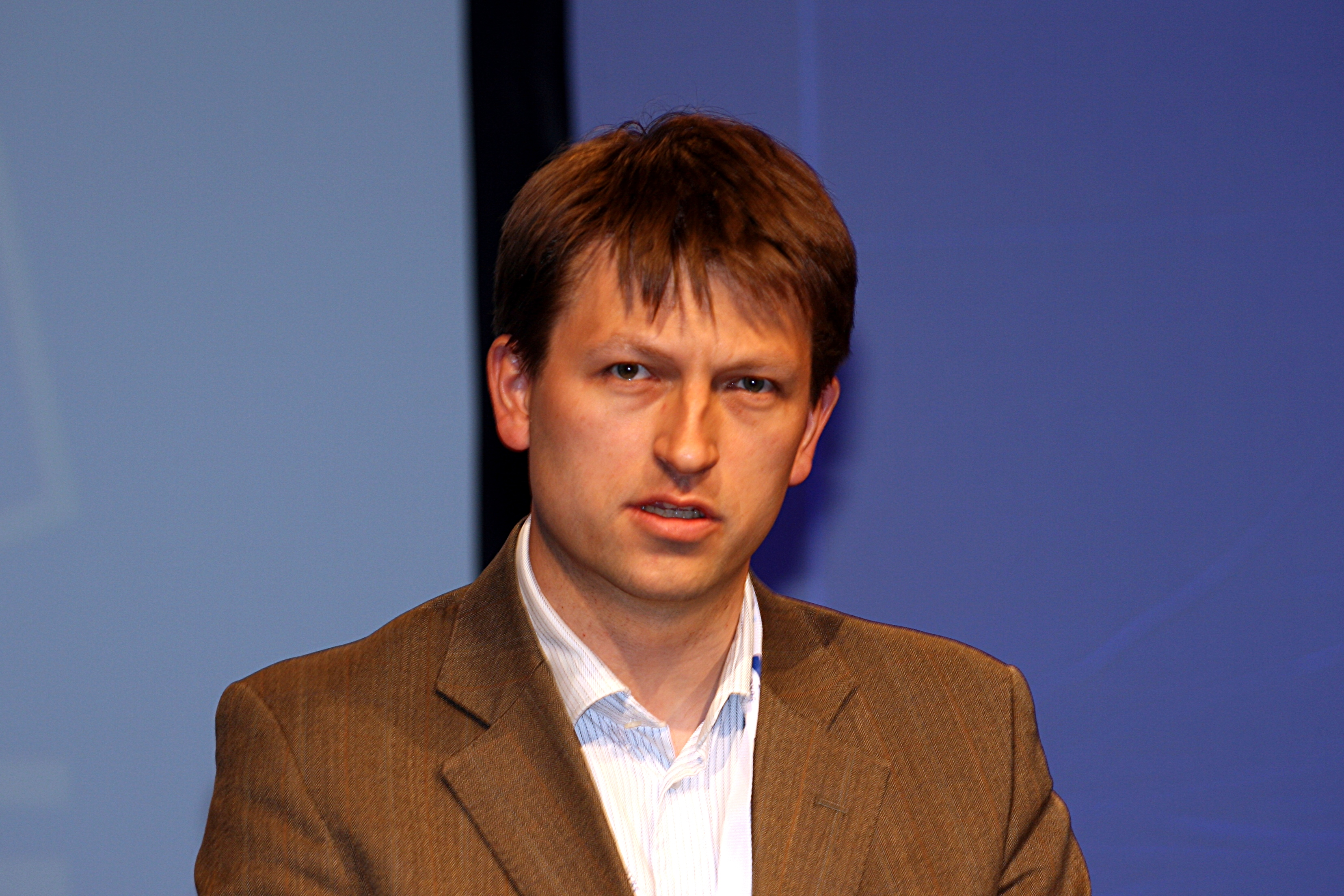 Eirik Lae Solberg, Norwegian politician (Conservative Party).